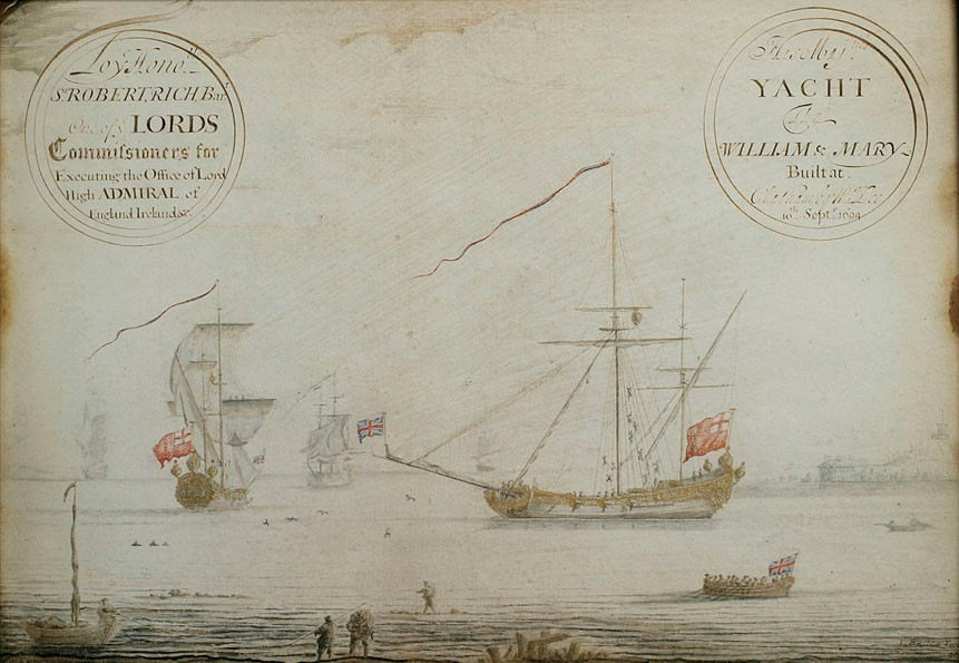 His Majesty's Yacht WILLIAM & MARY, Signed LR: T. Baston Fecit 96, Pencil & Watercolor on Paper with Highlights of Gold. Upper left hand dedication: “To Ye Honorble Sir Robert, Rich, Bar.t One of ye LORDS Commissioners for Executing the Office of Lord High ADMIRAL of England, Ireland, sce.” The upper right hand inscription “His Majesty Yacht The WILLIAM & MARY Built at Chatham by Mr. Lee 10th, Sept.r 1694”.